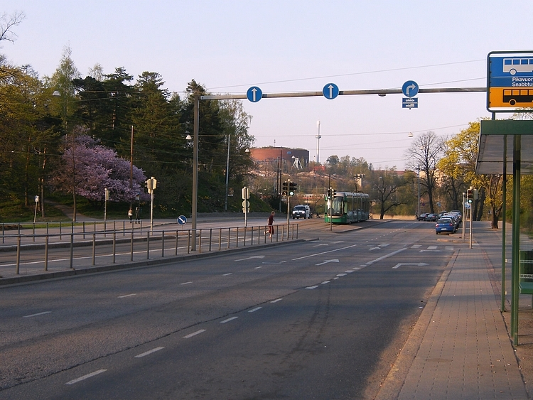 The western section of Helsinginkatu, Helsinki